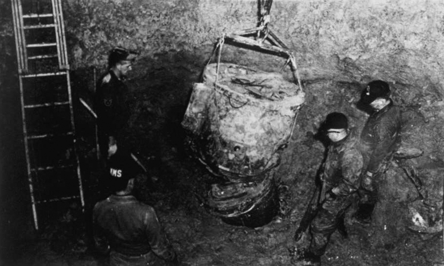 Air Force personnel recovering parts of a MK-39 nuclear bomb that fell from a B-52 bomber that broke up over Goldsboro in 1961.